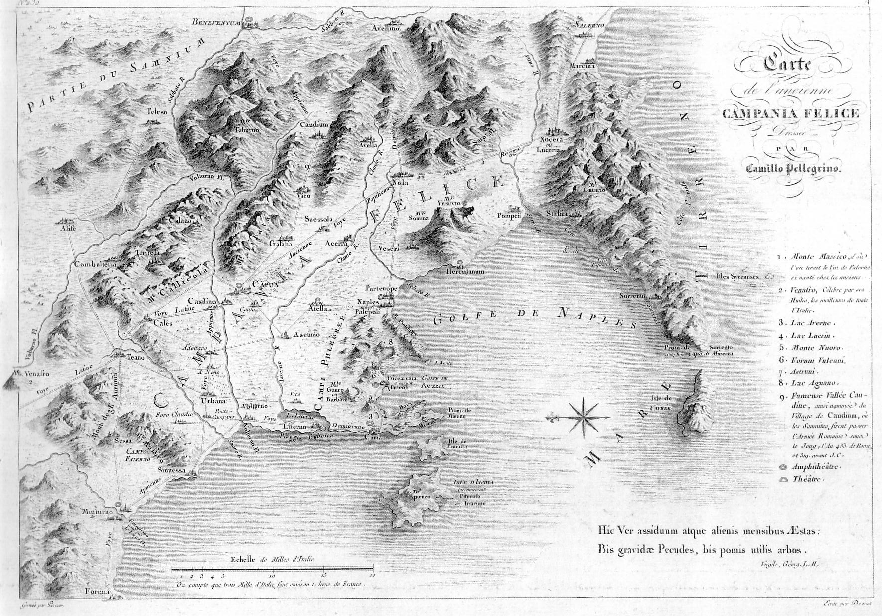 Camillo Pellegrino, "Carte de l'ancienne Campania Felice", end XVIII century